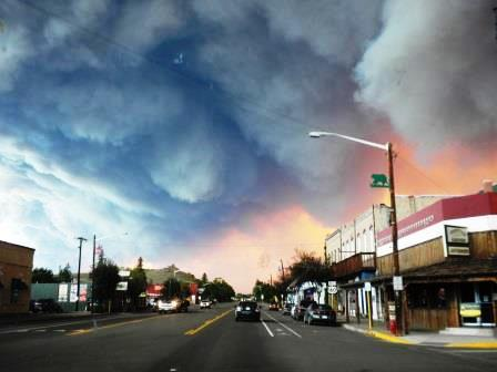 Smoke fills the air as the West Fork Complex Fire nears Del Norte, CO. The West Fork Complex Fire is made of four fires, Papoose Fire, East Zone of West Fork Fire, West Zone of West Fork Fire, and Windy Pass Fire. The fires located in the vicinity of Pagosa Springs, CO began on Jun. 05, 2013 by lightning strikes. The multiple fires have consumed approximately 70, 262 acres. U. S. Forest Service photo.